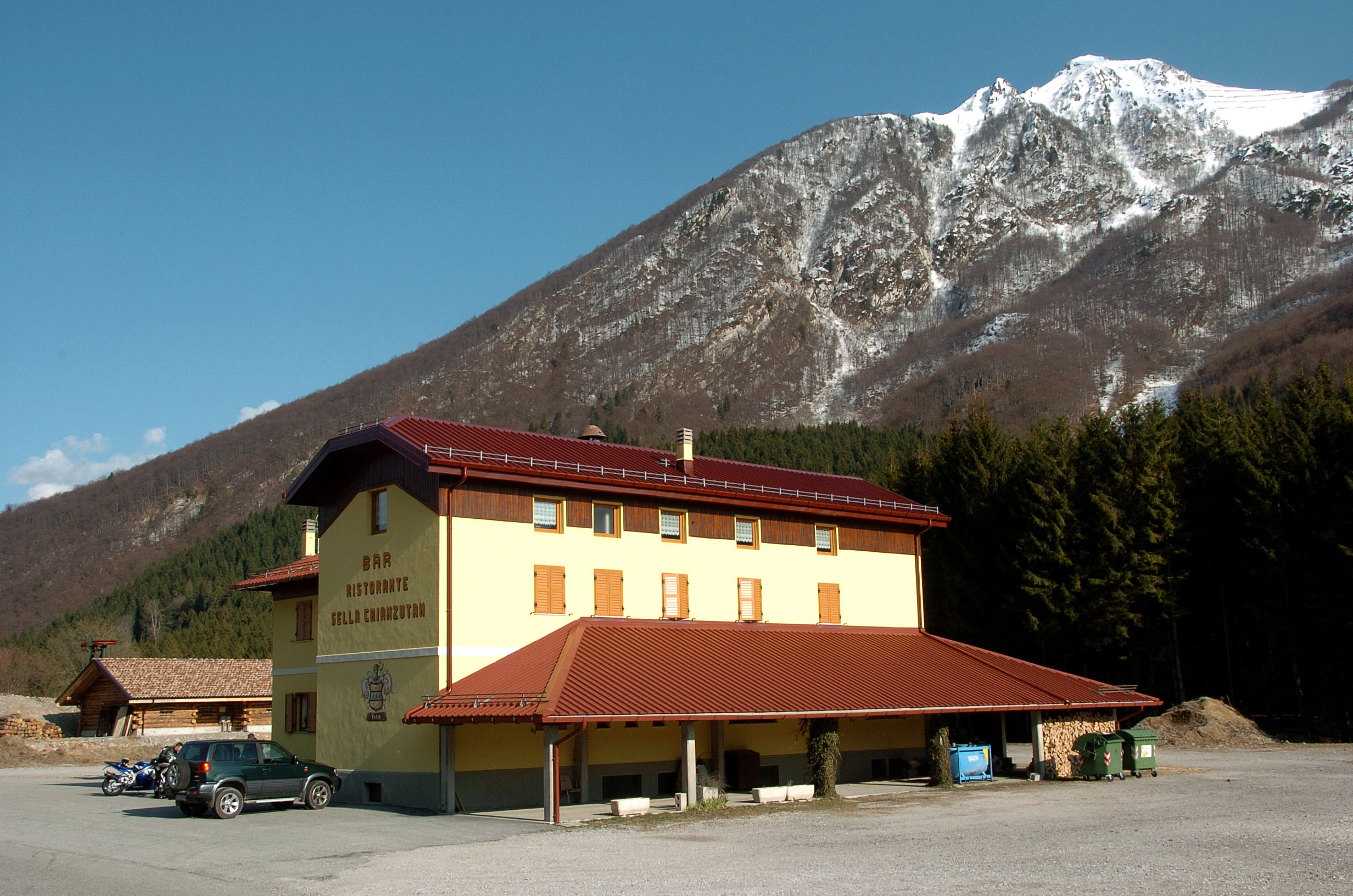 Sella Chianzutan with Monte Piombada (1744 m) in the background, community Verzegnis, situated in the state Friuli-Venezia Giulia, Italy